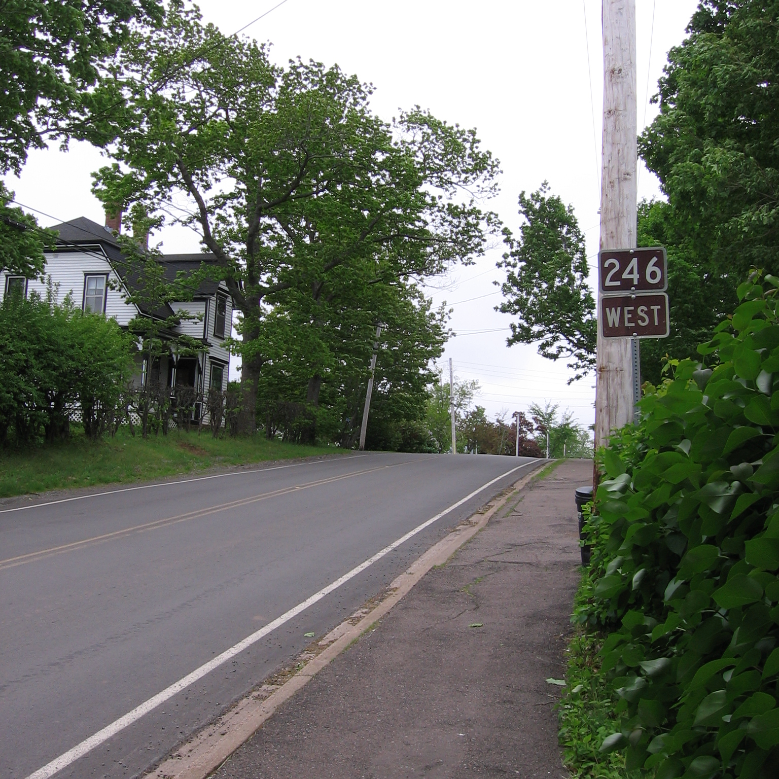 Highway route sign - Route 246, Colchester County, NS